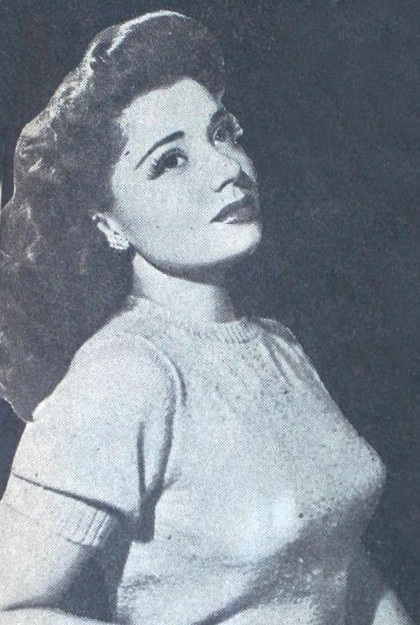 Betty Jane Bonney aka Judy Johnson